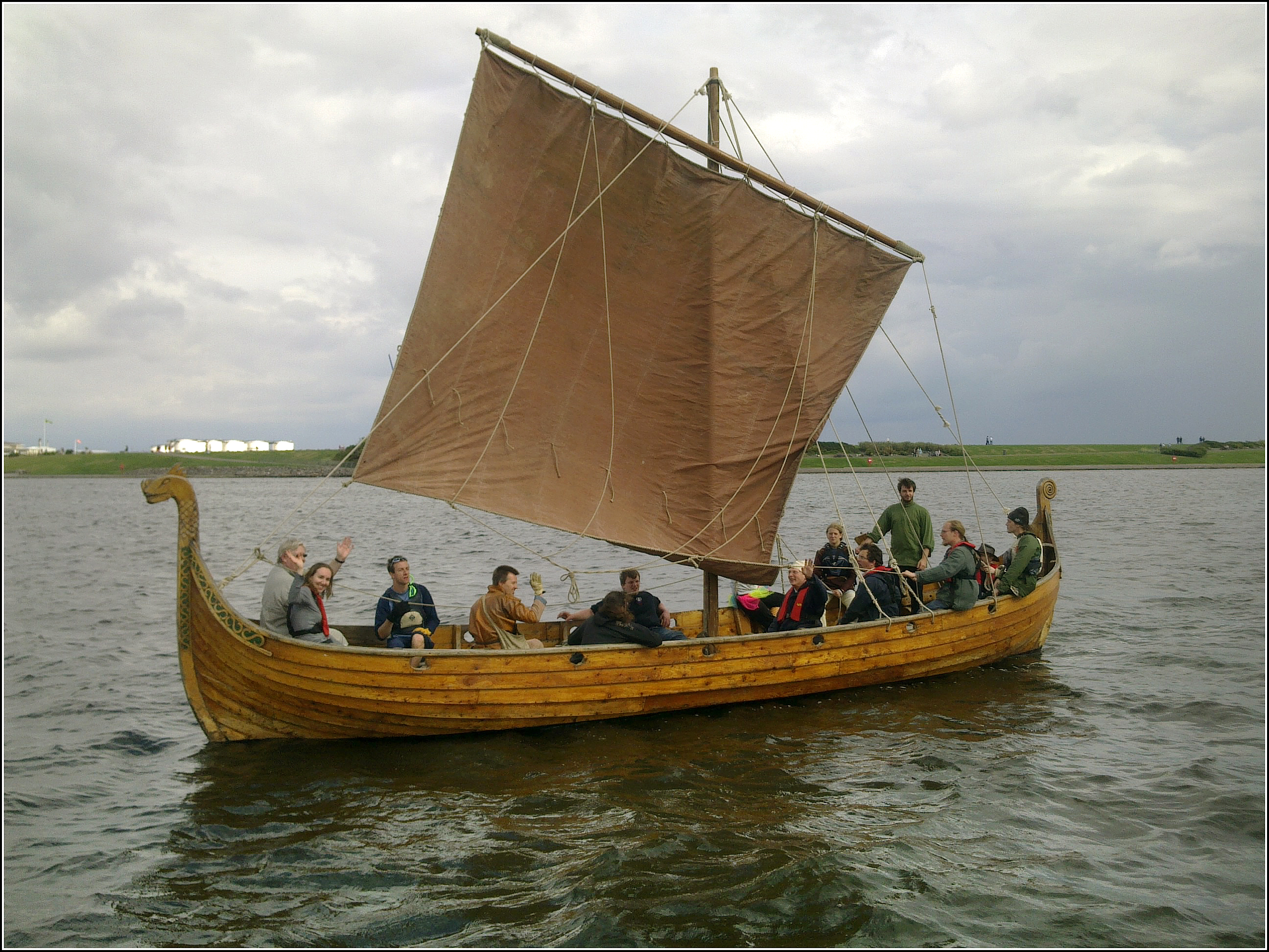 A picture from my mobile phone. I'm very pleased with the quality of the picture.